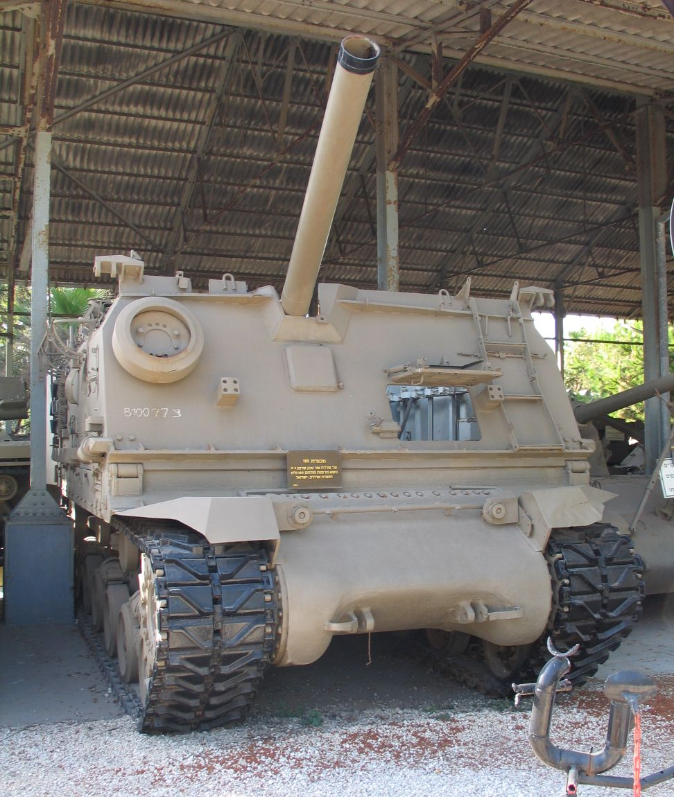 Description: Makmat 160 mm self-propelled mortar on M4 Sherman chassis in Batey ha-Osef museum, Tel Aviv, Israel. 2005. "Makmat" stands for "Margema Kveda Mitnayaat" = "Self-propelled Heavy Mortar". Source: Photo by me, User:Bukvoed.